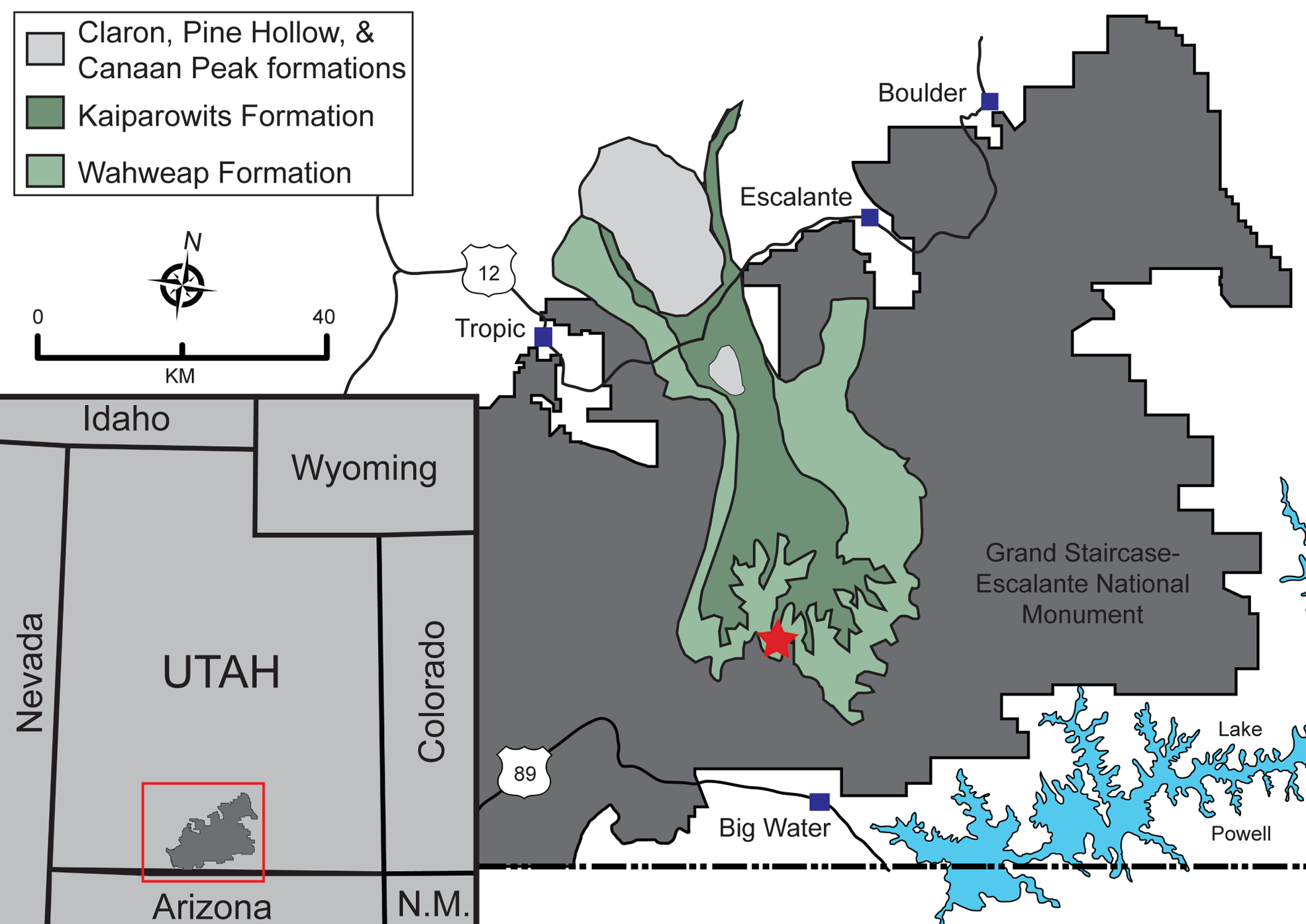 Locality map: Grand Staircase-Escalante National Monument, southern Utah. Map showing the Nipple Butte area (indicated by yellow star) of Grand Staircase-Escalante National Monument (GSENM). GSENM is bounded by the red rectangle and silhouetted in dark gray on the inset of Utah and surrounding states (modified from [1]). The original map has been modified to show the Nipple Butte area instead of the Machairoceratops fossil locality as in the original source. New location based on map in A New Macrovertebrate Assemblage from the Late Cretaceous (Campanian) of Southern Utah, page 601.